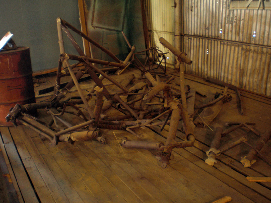 Wreckage of Qantas DH.86 VH-USG displayed in the Qantas Founders Museum, Longreach (Qld.).